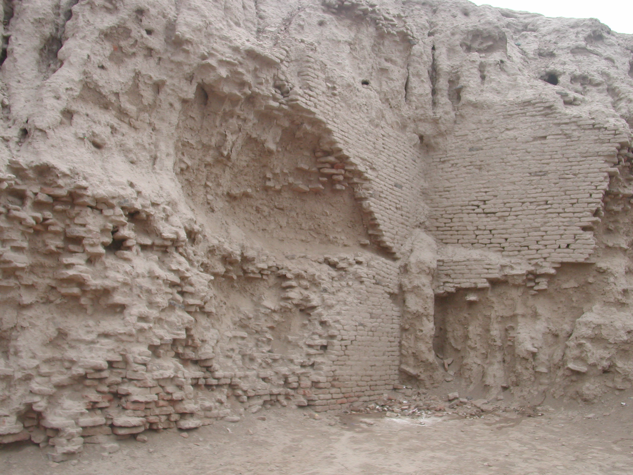 Shrine of Lal Shahbaz Qalandar This is a photo of a monument in Pakistan identified as the SD-U-6